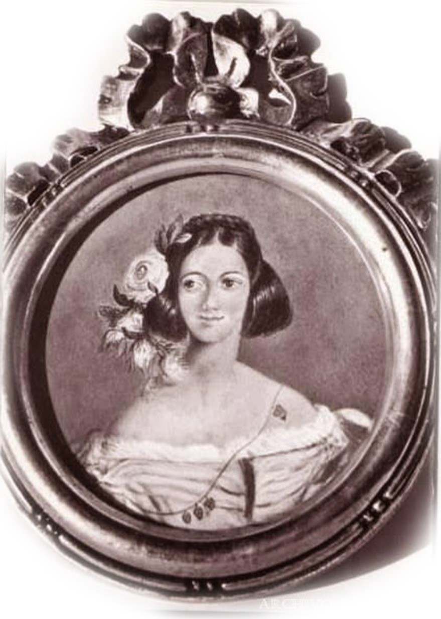 Perricholi's Picture